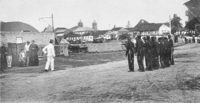 Victoriano Lorenzo's execution on May 15 1903, Plaza de Francia, Panama City, Panama